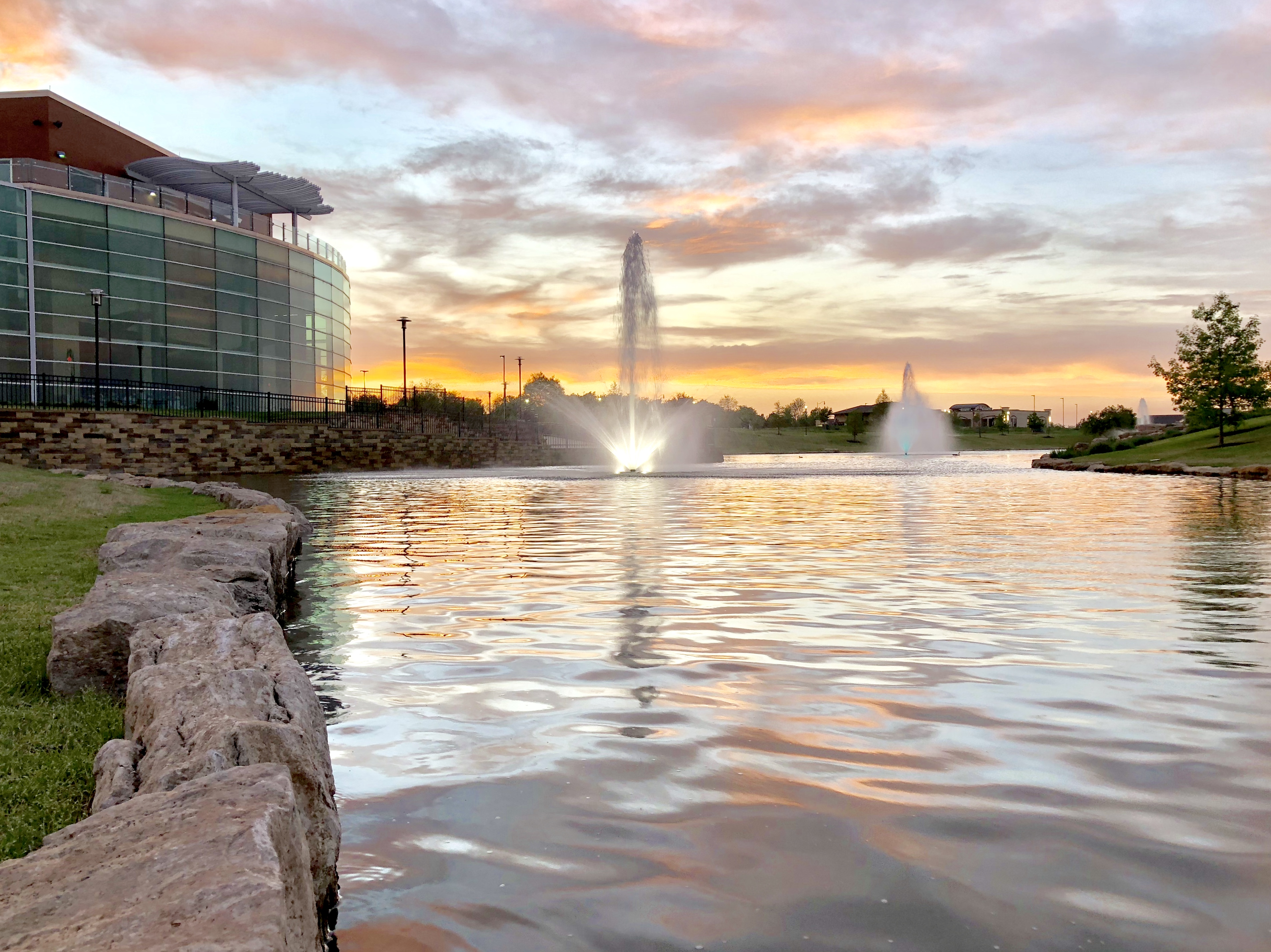 Glenpool Conference Center pond view